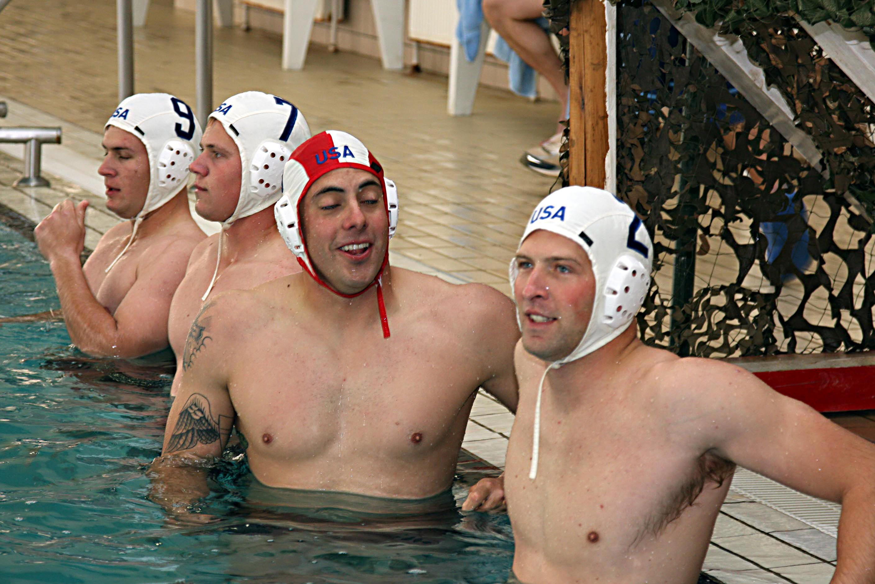 U.S. Marines with 1st Reconnaissance Battalion wait for the next match to start during a water polo tournament at Al Asad Air Base, Iraq, March 15, 2009. Water polo helps keep morale high for the Marines and Sailors deployed in support of Operation Iraqi Freedom.